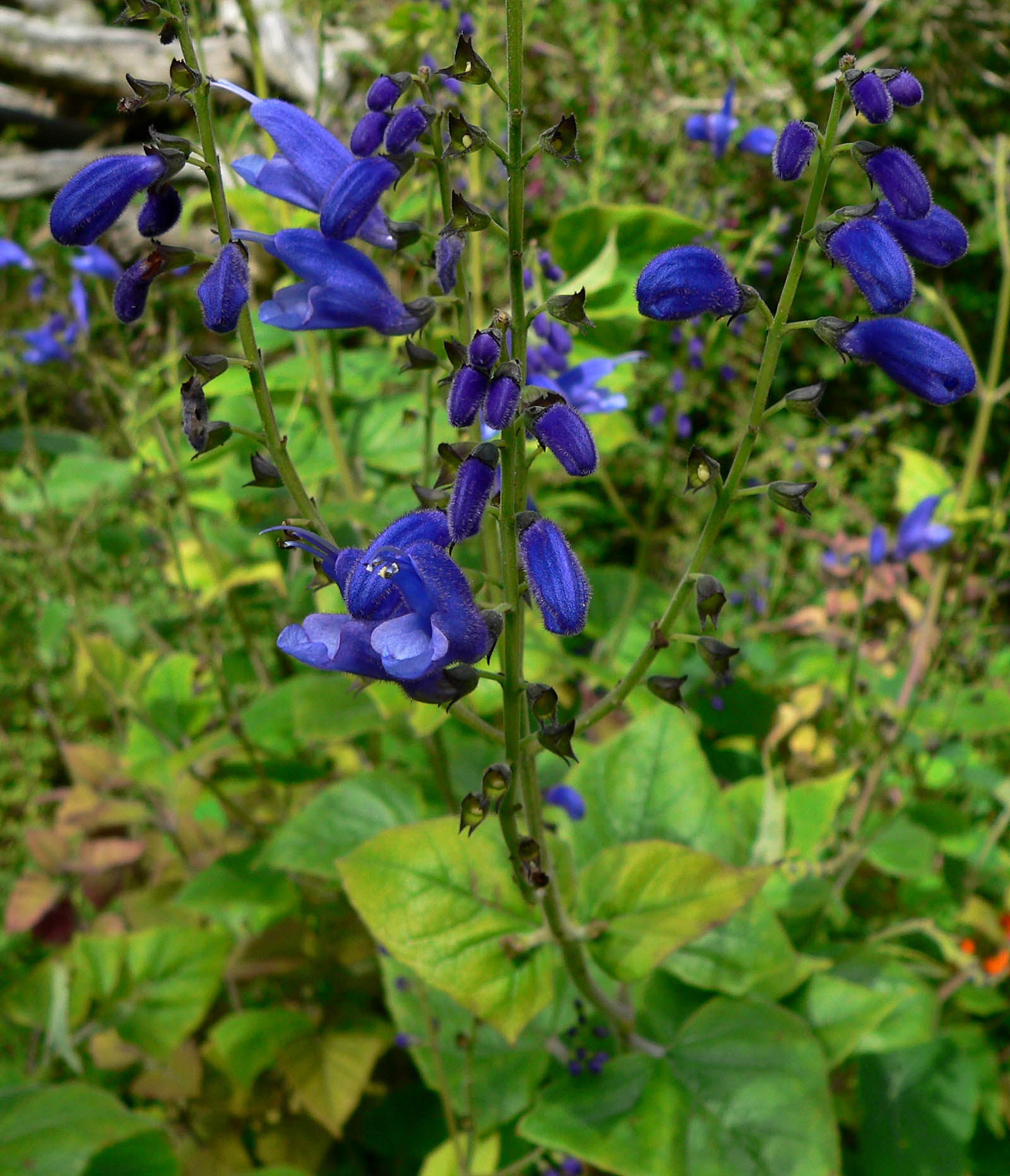 Photo of Salvia cacaliifolia at the San Francisco Botanical Garden